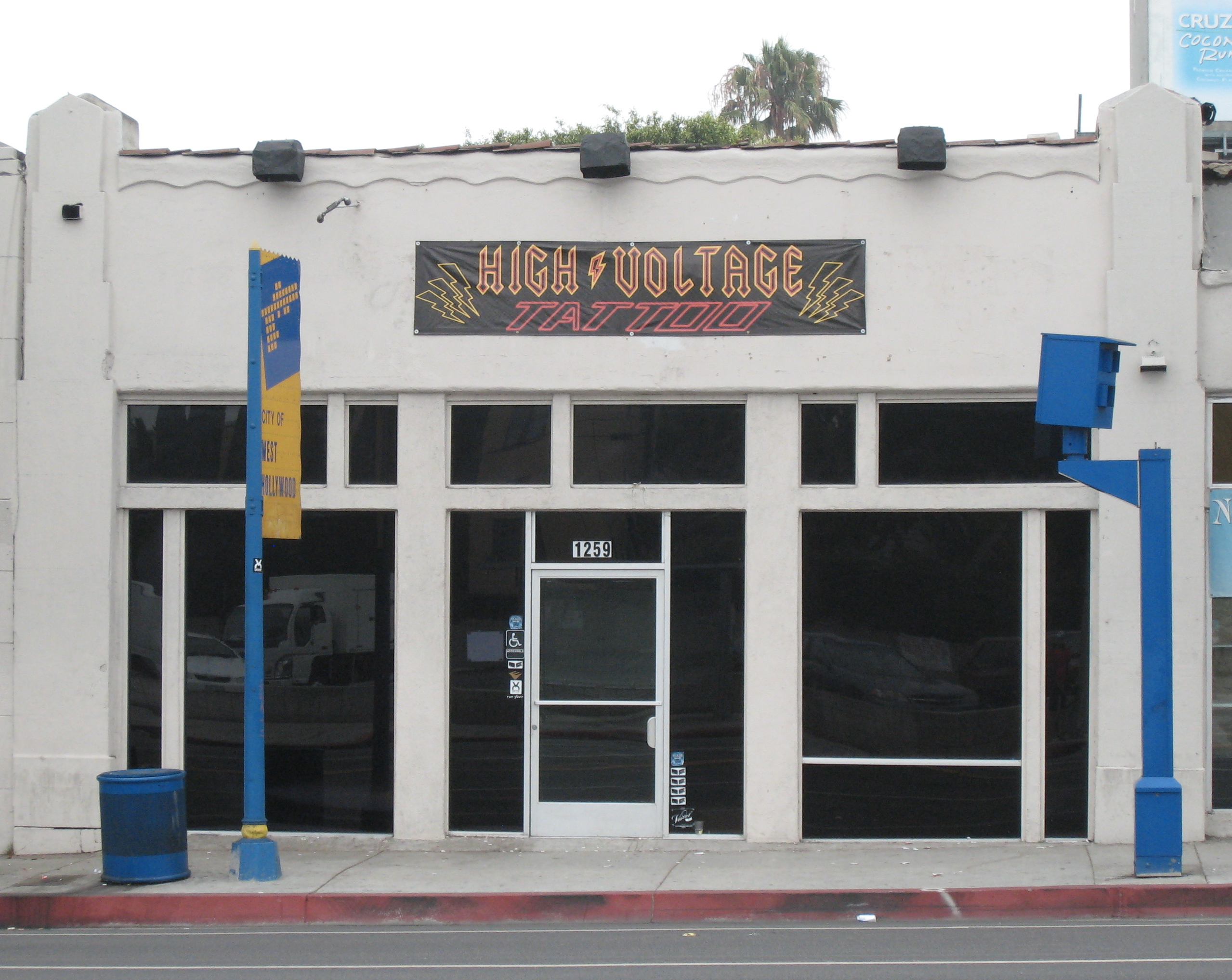 High Voltage Tattoo in West Hollywood, California